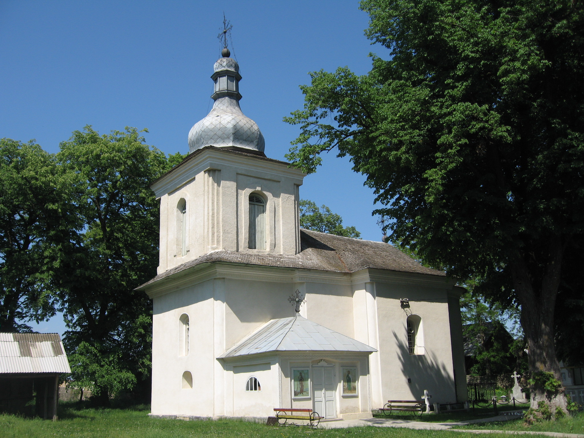 Church of Tupilati